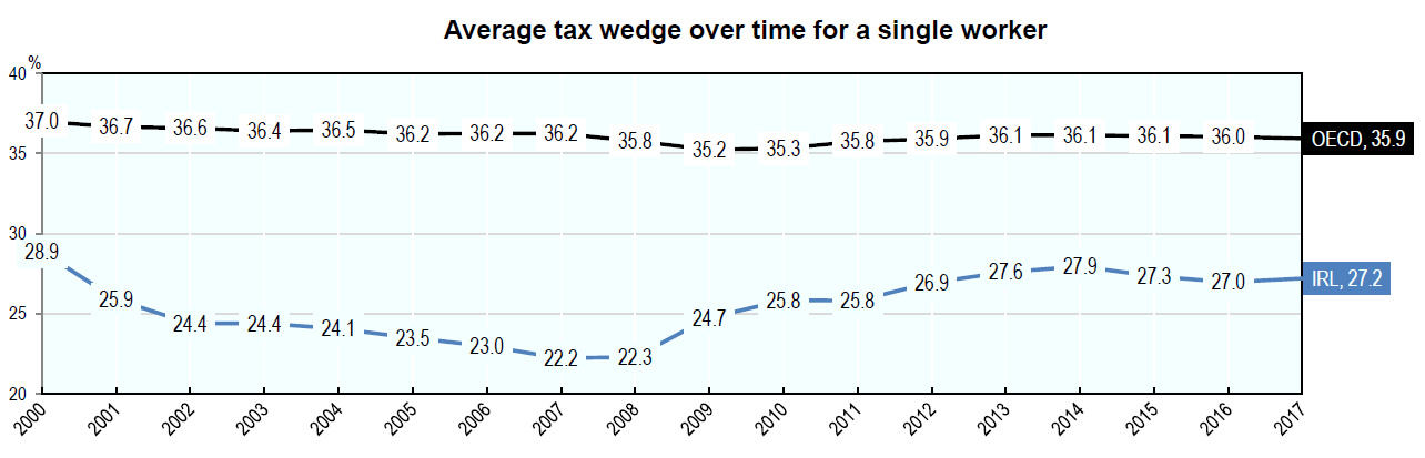 Recreation of OECD average tax wedge for a single worker (OECD vs Ireland, 2000 to 2017)